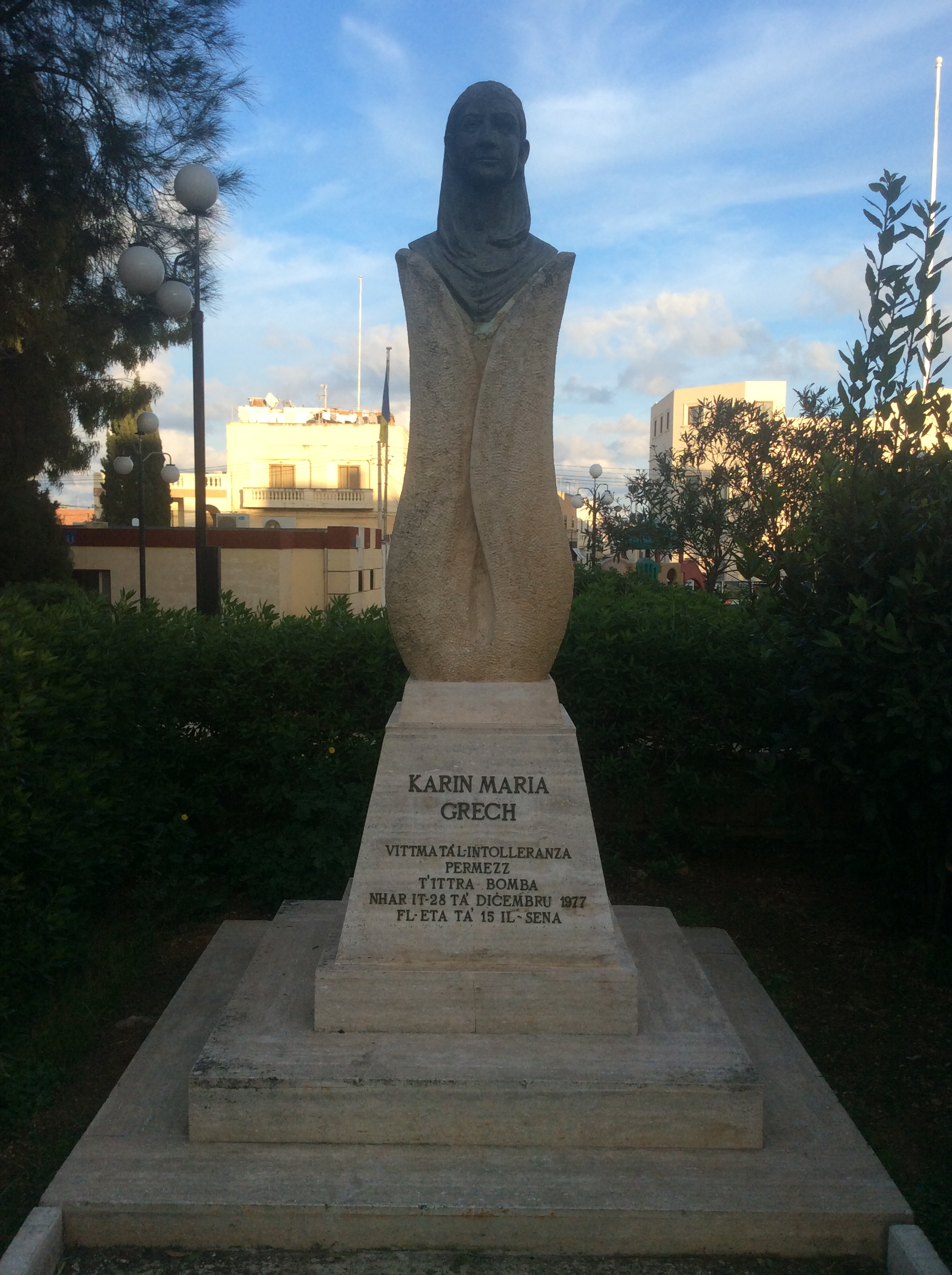 Karen Grech Monument at Karen Grech Garden in San Gwann, Malta